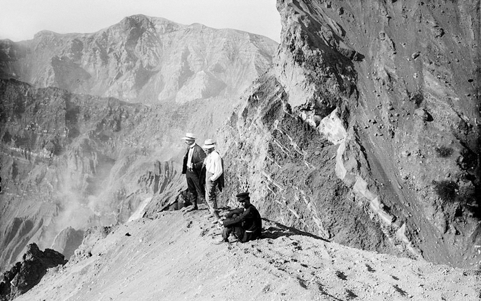 Expedition to mount Olympus of 1913, in the photo Frédéric Boissonnas, Daniel Baud-Bovy and Frédéric Boissonnas.